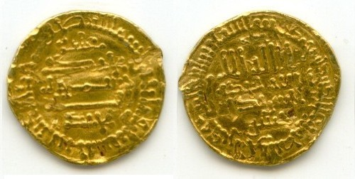 Aghlabid dinar coin, struck in 260 AH (October 873 - September 874 CE) under Abu 'l-Gharaniq Muhammad II in Tunisia